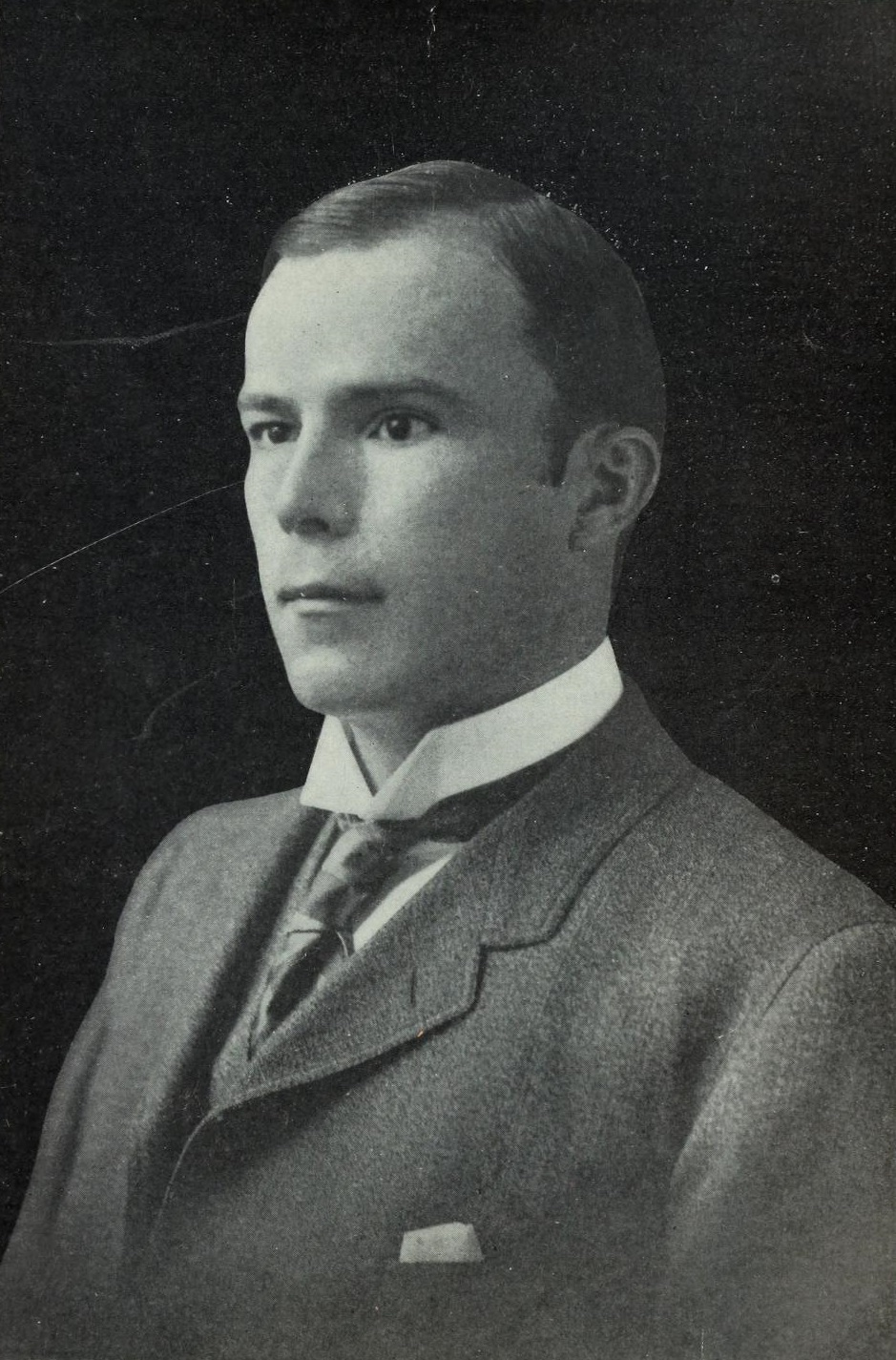 Portrait of William Morgan Shuster